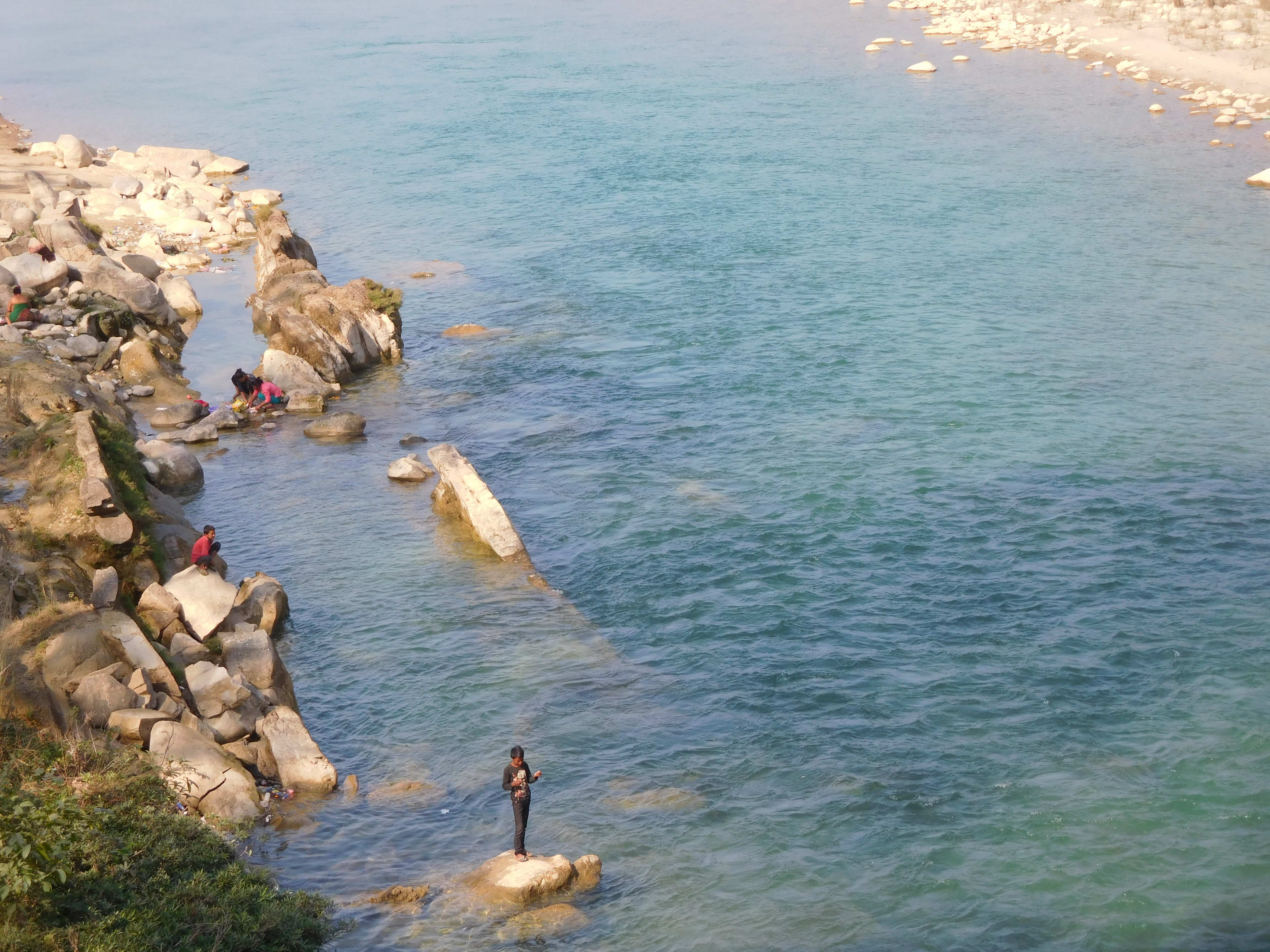 View of Babai river clicked from the Babai bridge, Ratna Rajmarg, Bardiya District, Nepal.